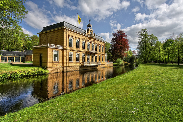 Nienoord’s history goes back five centuries. It began in the 16th century when land was reclaimed from a great expanse of peatmoor for the exploitation of turf. Now it is a noble estate with monuments, beautiful scenery and tourist attractions, like The National Carriage Museum.